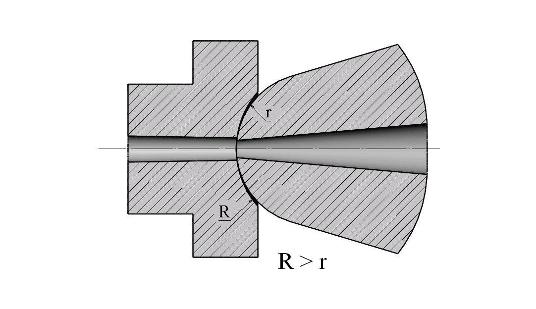 CAD sprue, SVG version created by SOLIDWORKS, based on the earlier TIF version, created by.